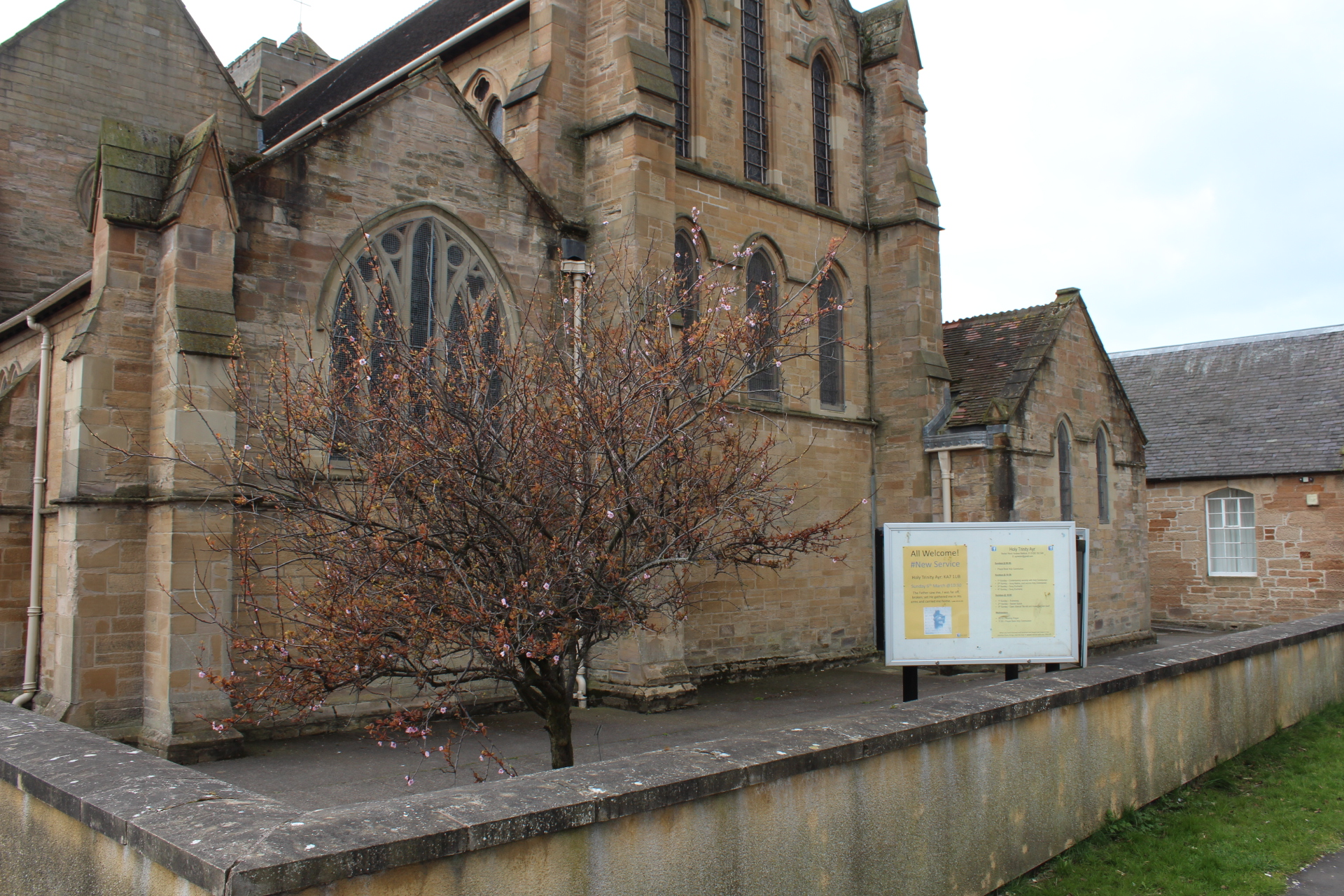 Holy Trinity Episcopal Church, Ayr